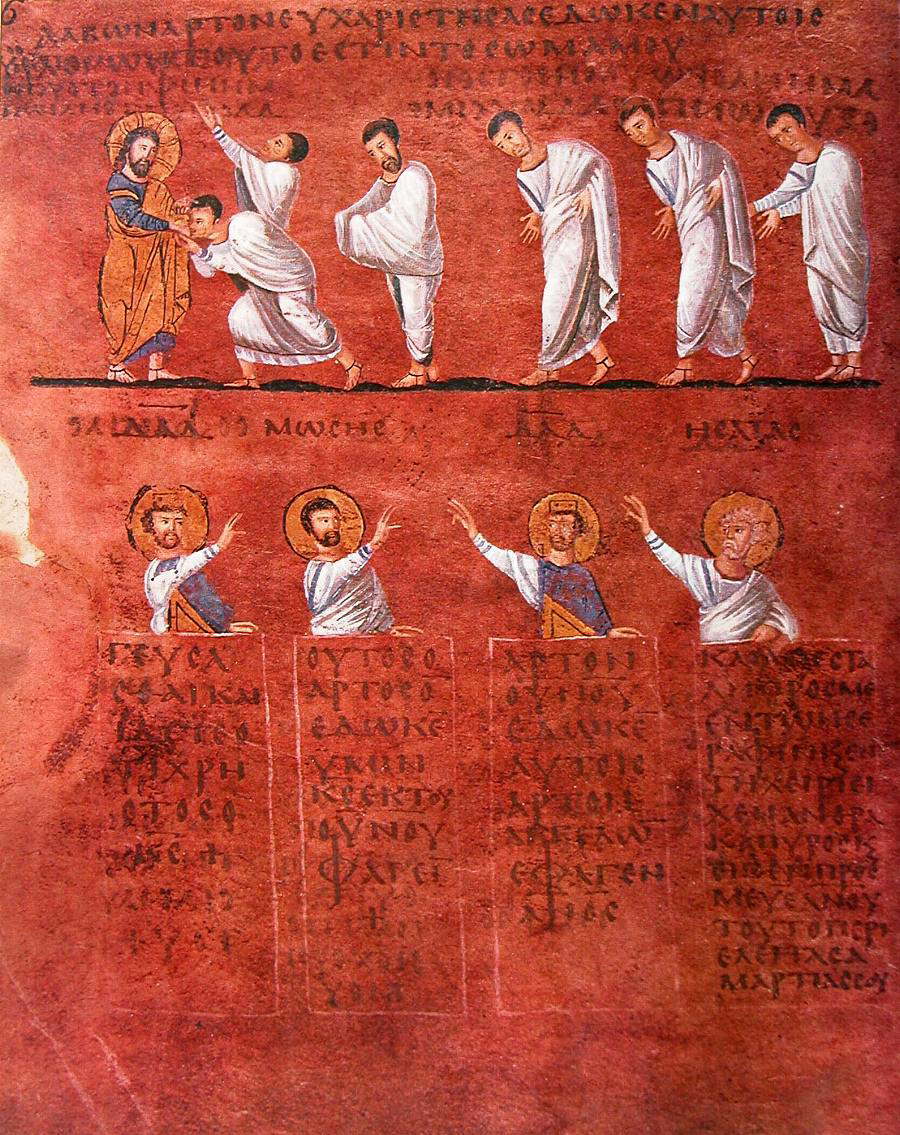 The Rossano Gospels (Cathedral of Rossano, Calabria, Italy, Archepiscopal Treasury, s.n.) is a 6th century Byzantine Gospel Book and is believed to be the oldest surviving illustrated New Testament manuscript.